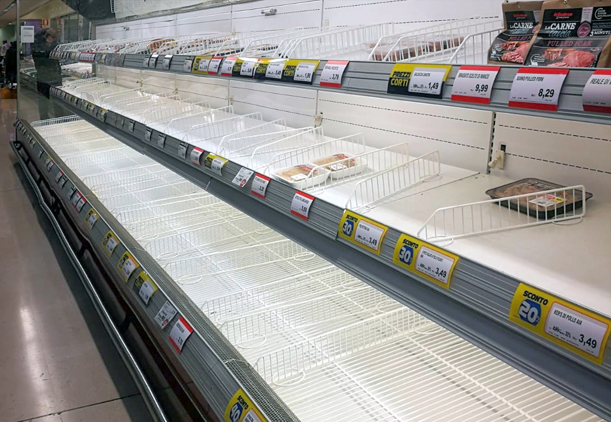 Bergamo’s EsseLunga during coronavirus outbreak.